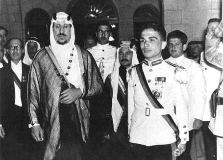 King Hussein of Jordan with King Saud bin Abdul Aziz of Saudi Arabia. Behind them are Prince Nayef bin Abdullah, King Hussein's uncle, and Jordanian Prime Minister Tawfiq Abul Huda, 1954